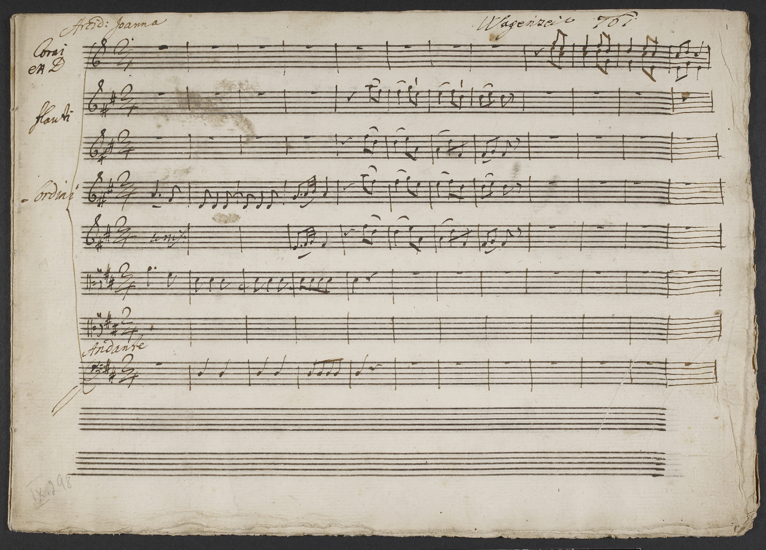 Joanna. In the composer's hand.